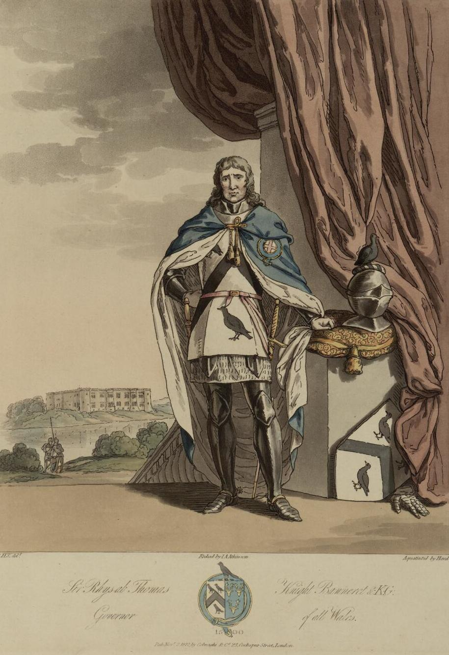 A portrait from the Welsh Portrait Collection at the National Library of Wales. Depicted person: Rhys ap Thomas – Soldier and landholder who rose to prominence during the Wars of the Roses